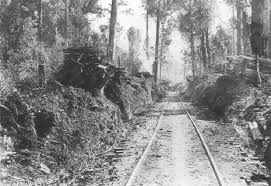 A section of the Port Craig tramway during use (NZ Forest Service photograph collection, copies held by Department of Conservation)